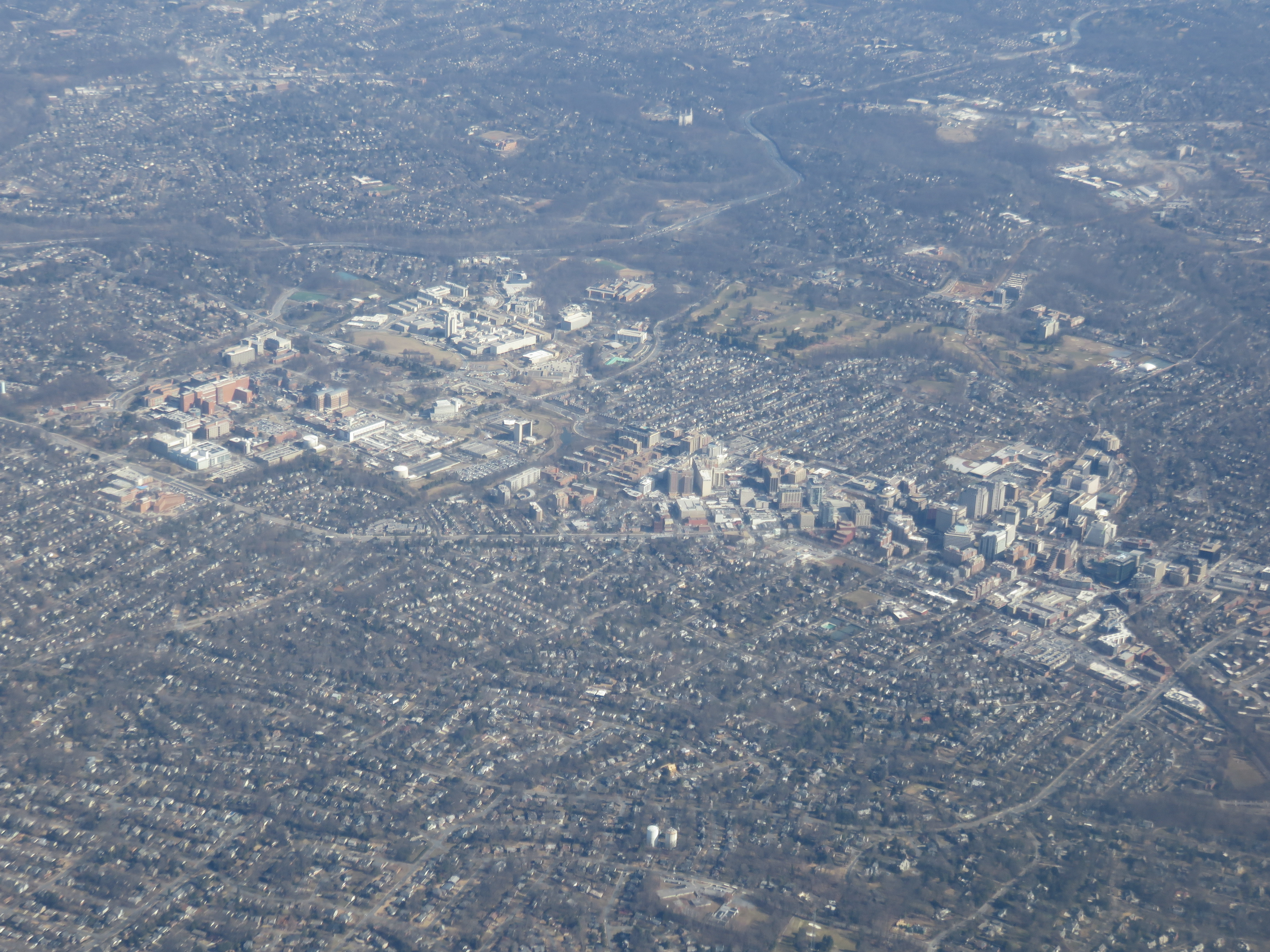 Aerial view of Bethesda, Maryland, including the National Institutes of Health and Walter Reed National Military Medical Center campuses and downtown Bethesda, in 2019